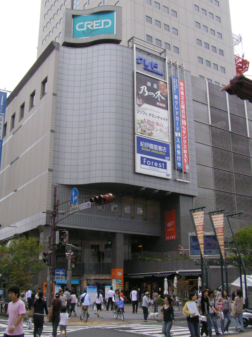 In front of Credo Okayama